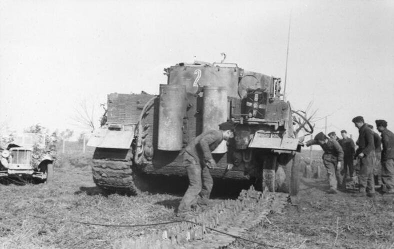 Information added by Wikimedia users.Schwere Panzer-Abteilung 508 (Size and style of number on turret, located in Italy)[1]